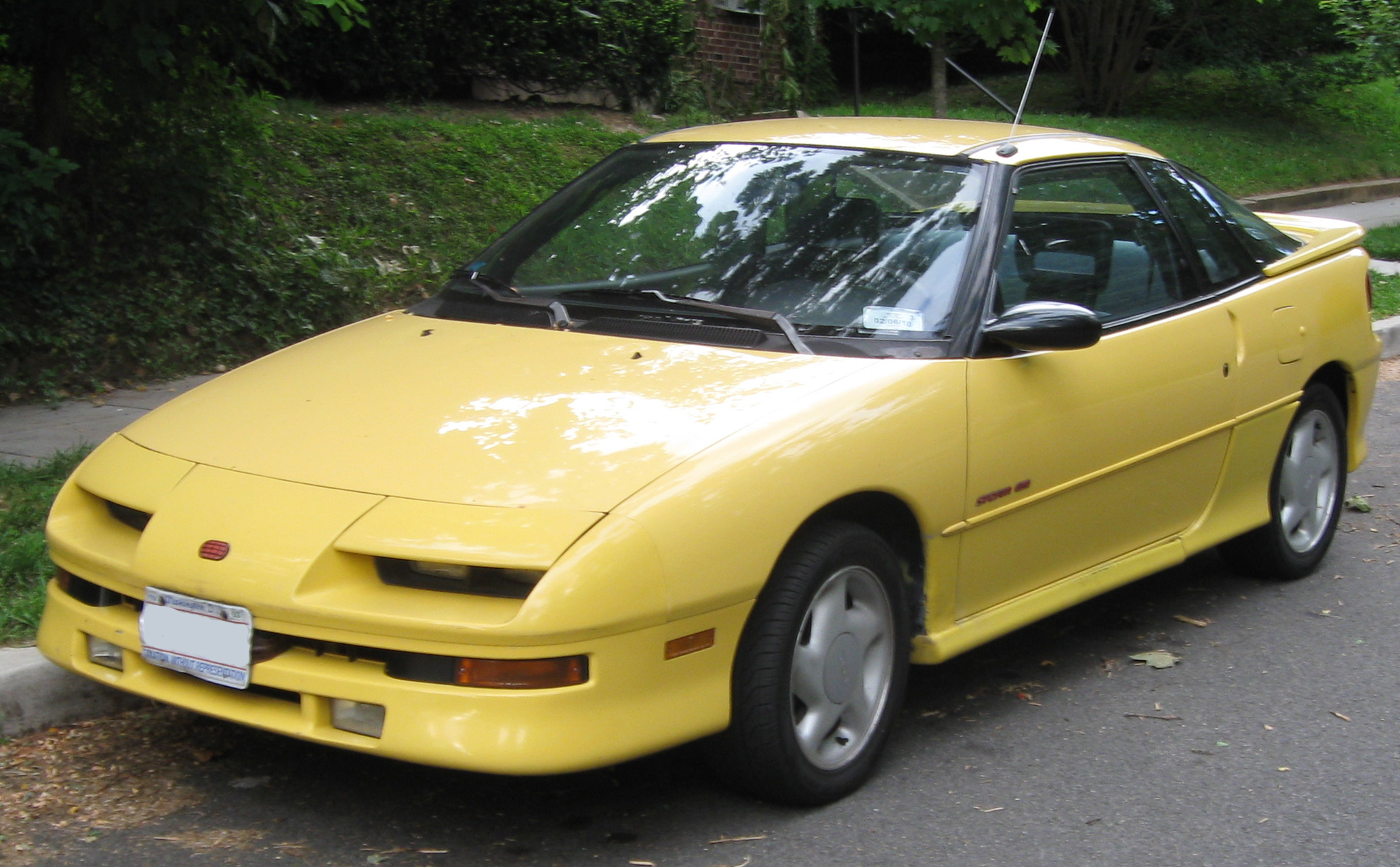 1991 Geo Storm GSi photographed in Washington, D.C., USA.